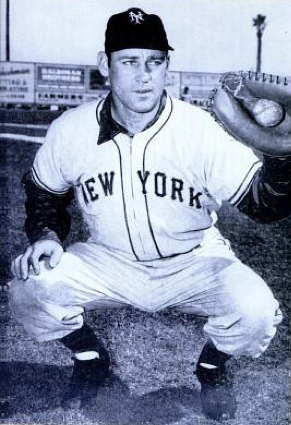 New York Giants catcher Wes Westrum in a 1955 issue of Baseball Digest.